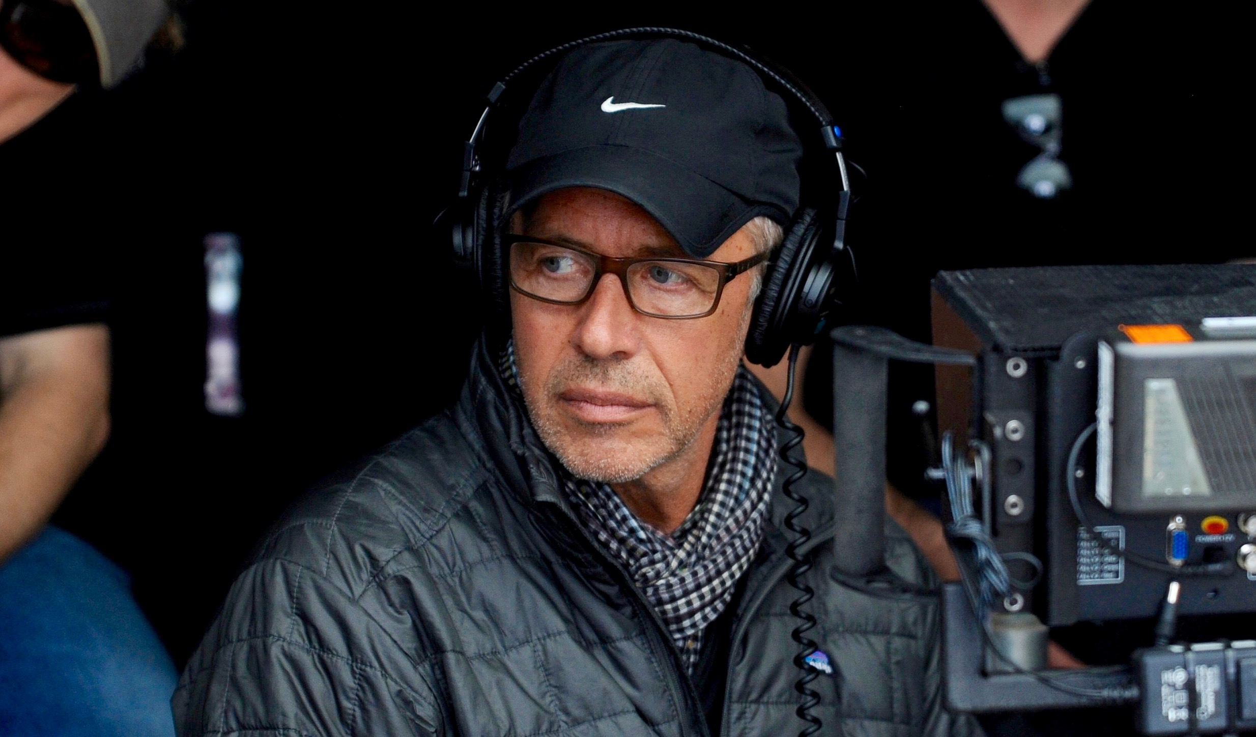 Peter Chelsom on set of The Space Between Us